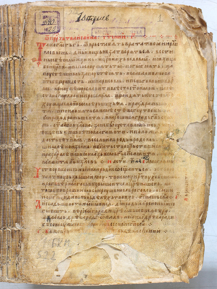 Skopje Menaion. Manuscripst from 13th century from Macedonia